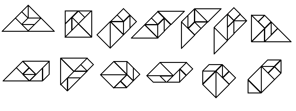 The 13 convex shapes made from the 7 tan's.